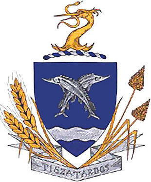 Coat of arms of Tiszatardos, Hungary